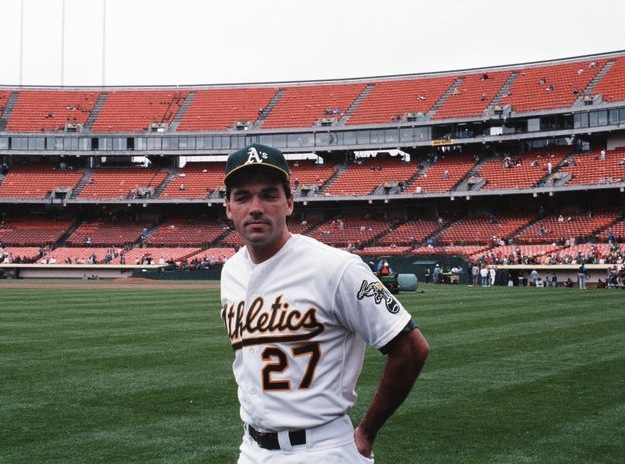 Billy Beane during his playing career with the Oakland A's.